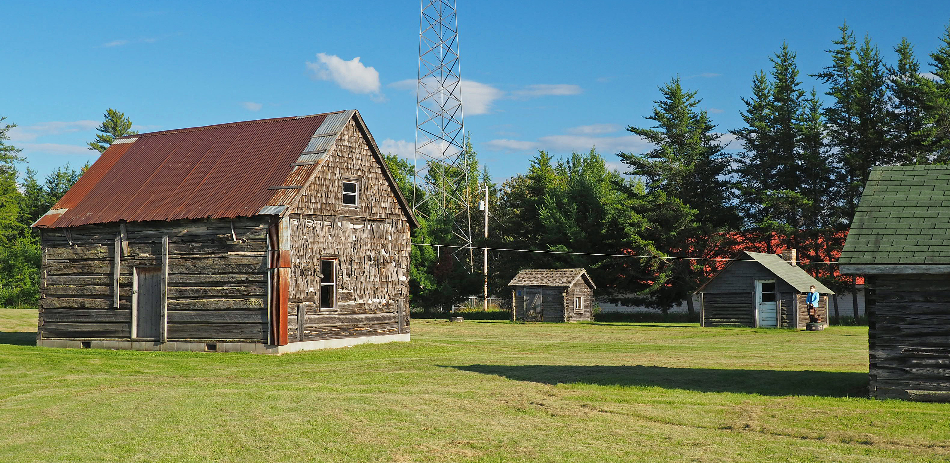 Historic log buildings built by Finnish settlers, Nelimark Homestead Museum, 4839 Salo Rd, Embarrass, Minnesota, USA. Viewed from the northwest.